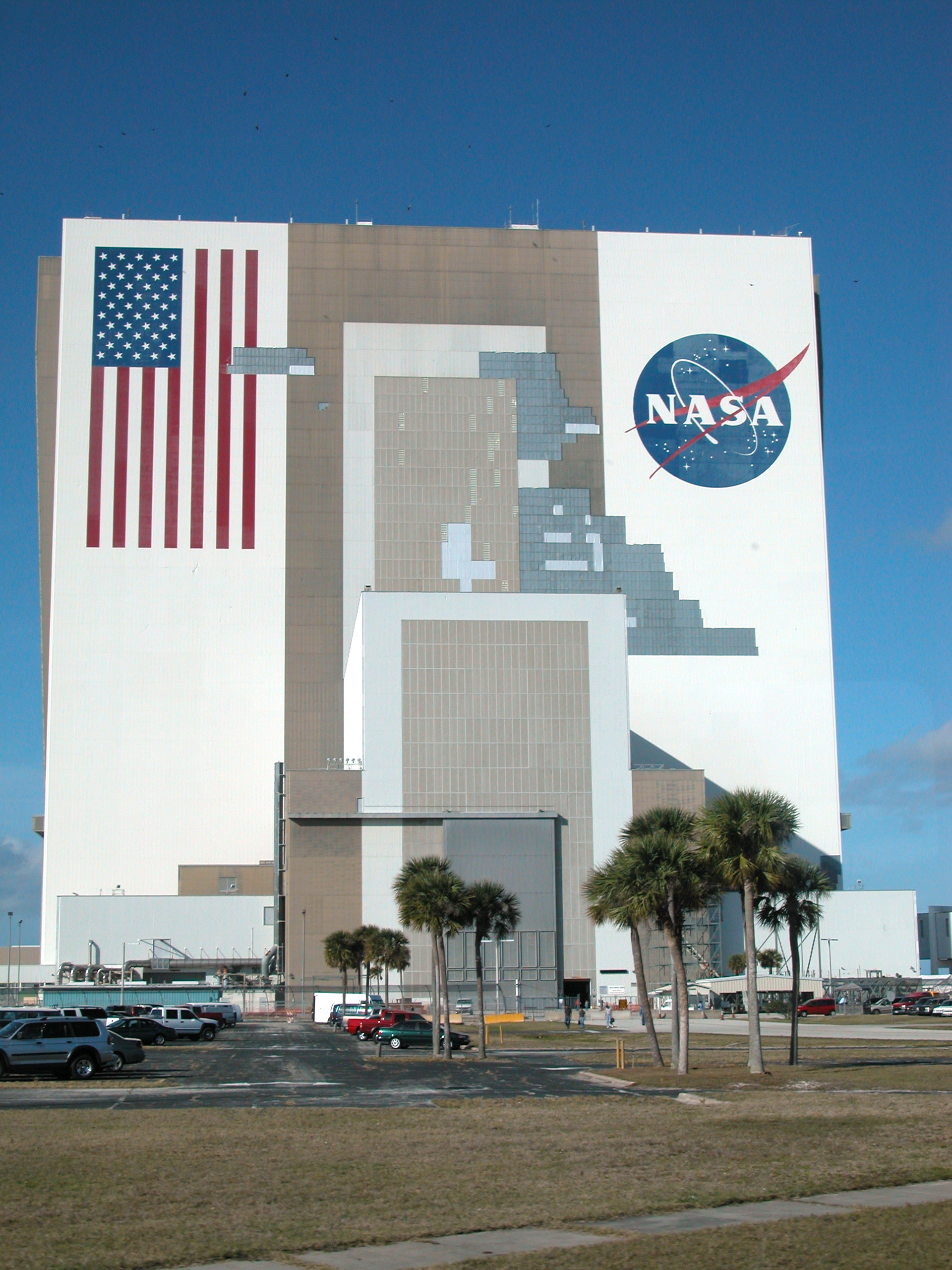 The VAB with the obvious damage reported to the passage of the Hurricane Frances.